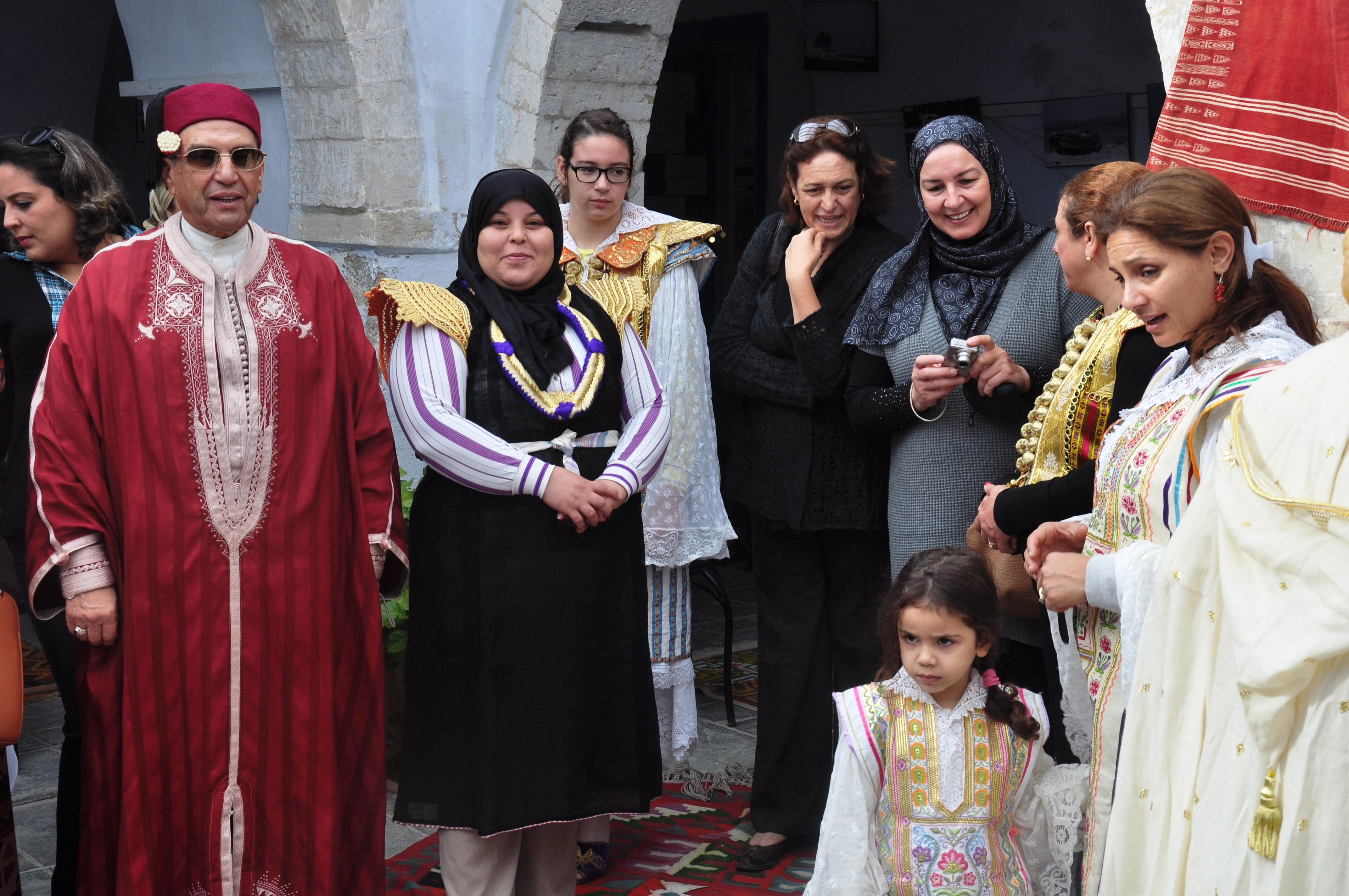 This is an image of Cultural Fashion or Adornment from Tunisia